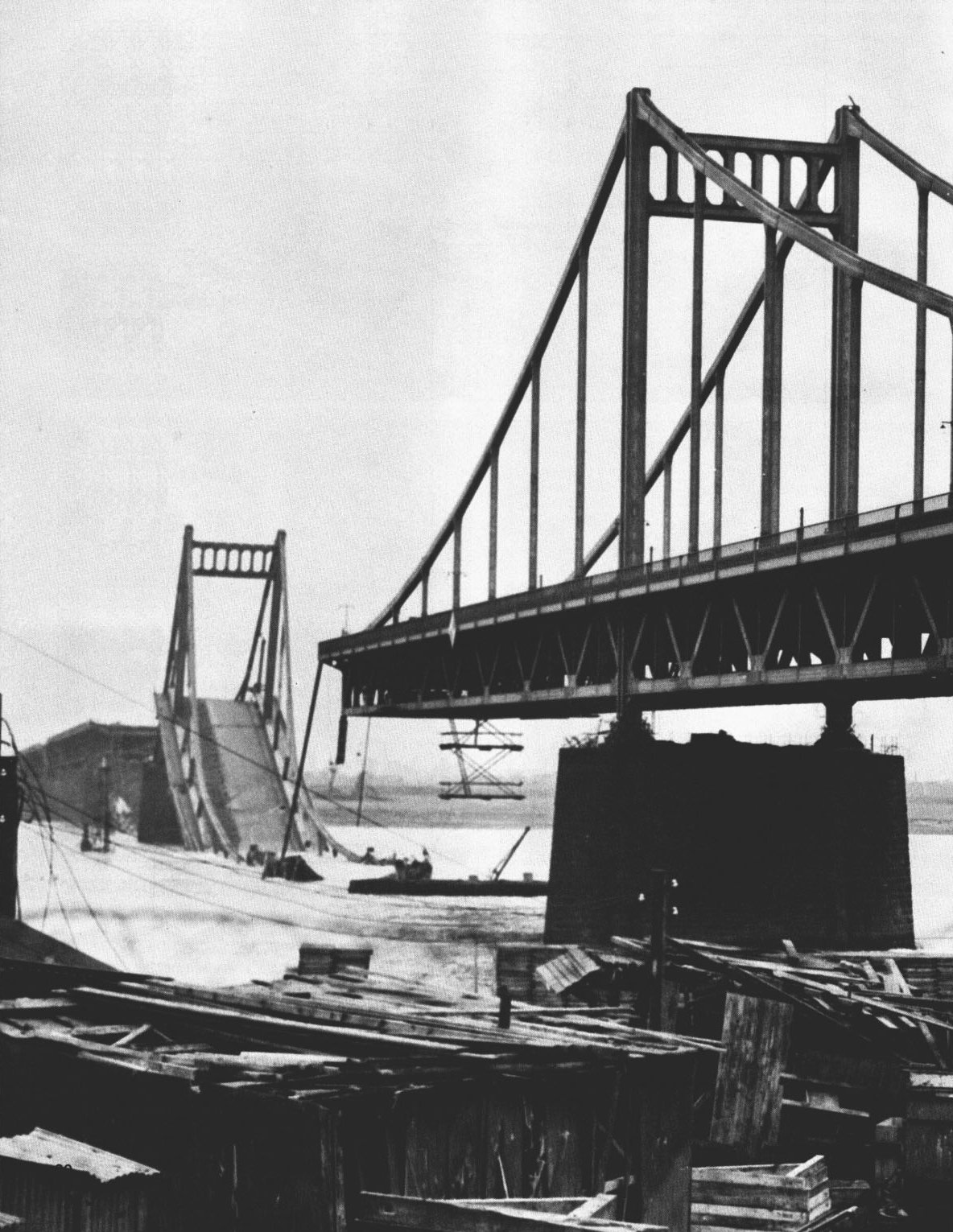 The destroyed bridge over the Rhine between Krefeld and Uerdingen, Germany, in 1945. The road bridge was planned during the Weimar Republic but construction started in 1933, after the Nazis came to power. It was opened by Rudolf Heß on 7 June 1936 and named "Adolf-Hitler-Brücke". The bridge was blown up by German troops on 4 March 1945. Using many surviving parts, the reconstruction of the bridge started in 1948 and it was reopened as the "Krefeld-Uerdinger Rheinbrücke" on 4 November 1950.